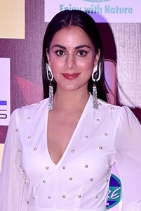 Shraddha Aarya at sbs Telebration Awards.